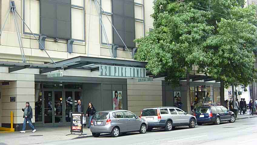 The entrance to 520 Pike Tower, a 29-story commercial office building in downtown Seattle, located on the Northwest corner of 6th Ave and Pike St. ExtraHop Networks occupies the 17th floor, formerly the office space for Visio prior to that company's acquisition by Microsoft.